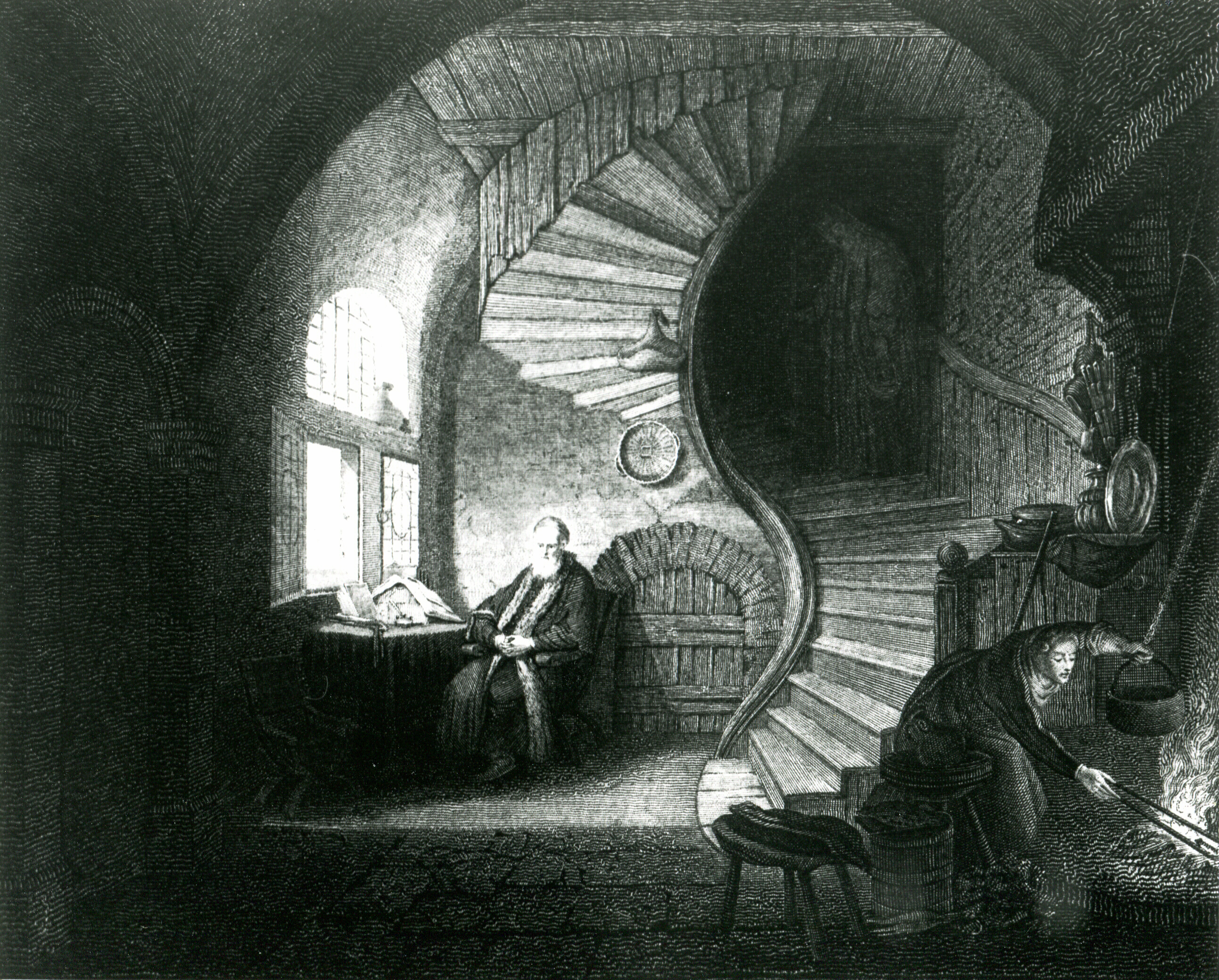 Philosopher in Meditation engraved after Rembrandt by Devilliers l'aîné for Joseph Lavallée, "Galerie du Musée de France," vol. 8